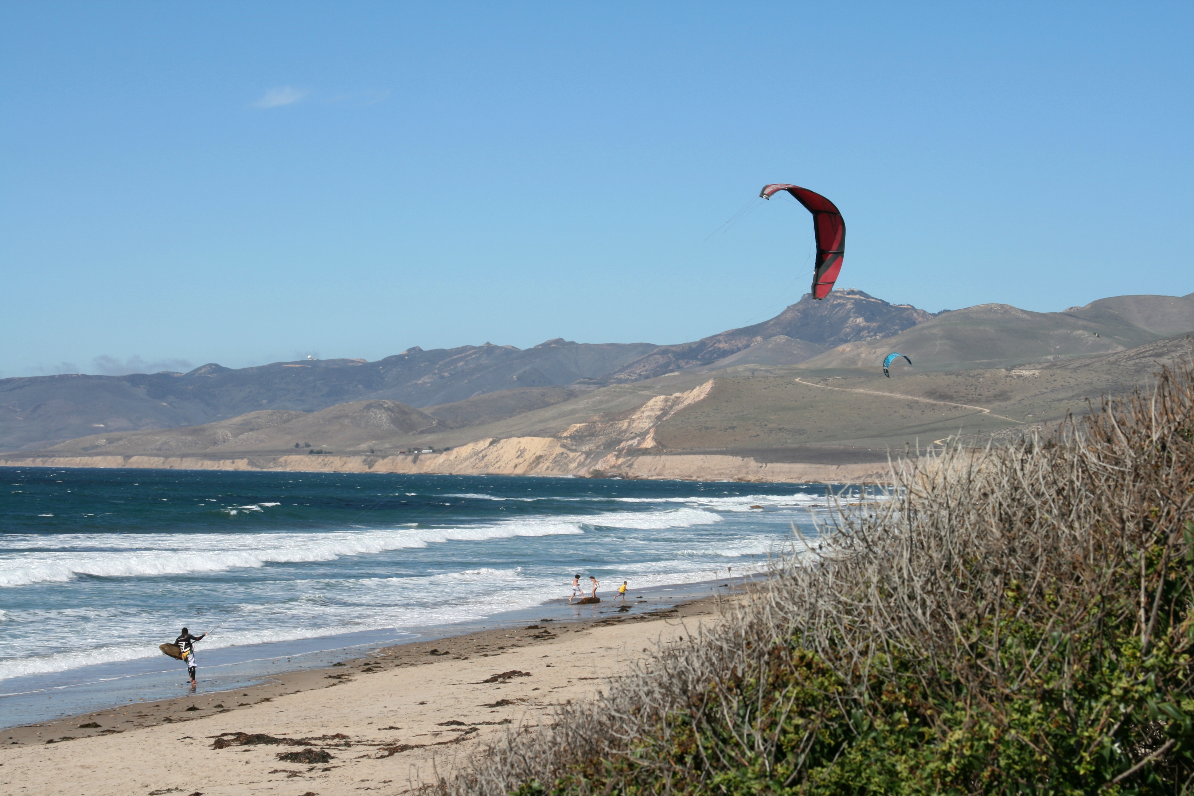 The famous Jalama wind doing it's thing.